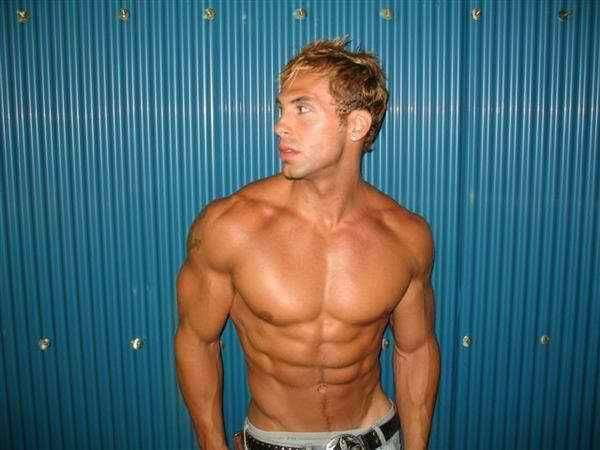 Eric Grover taking part in a photo-shoot in Tokyo's Shibuya Ward in 2007